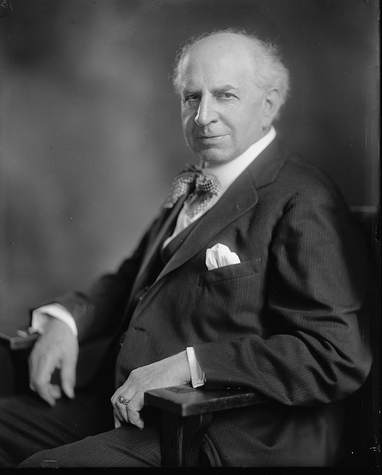 Title: KAHN, JULIUS. HONORABLE Abstract/medium: 1 negative : glass ; 8 x 10 in. or smaller